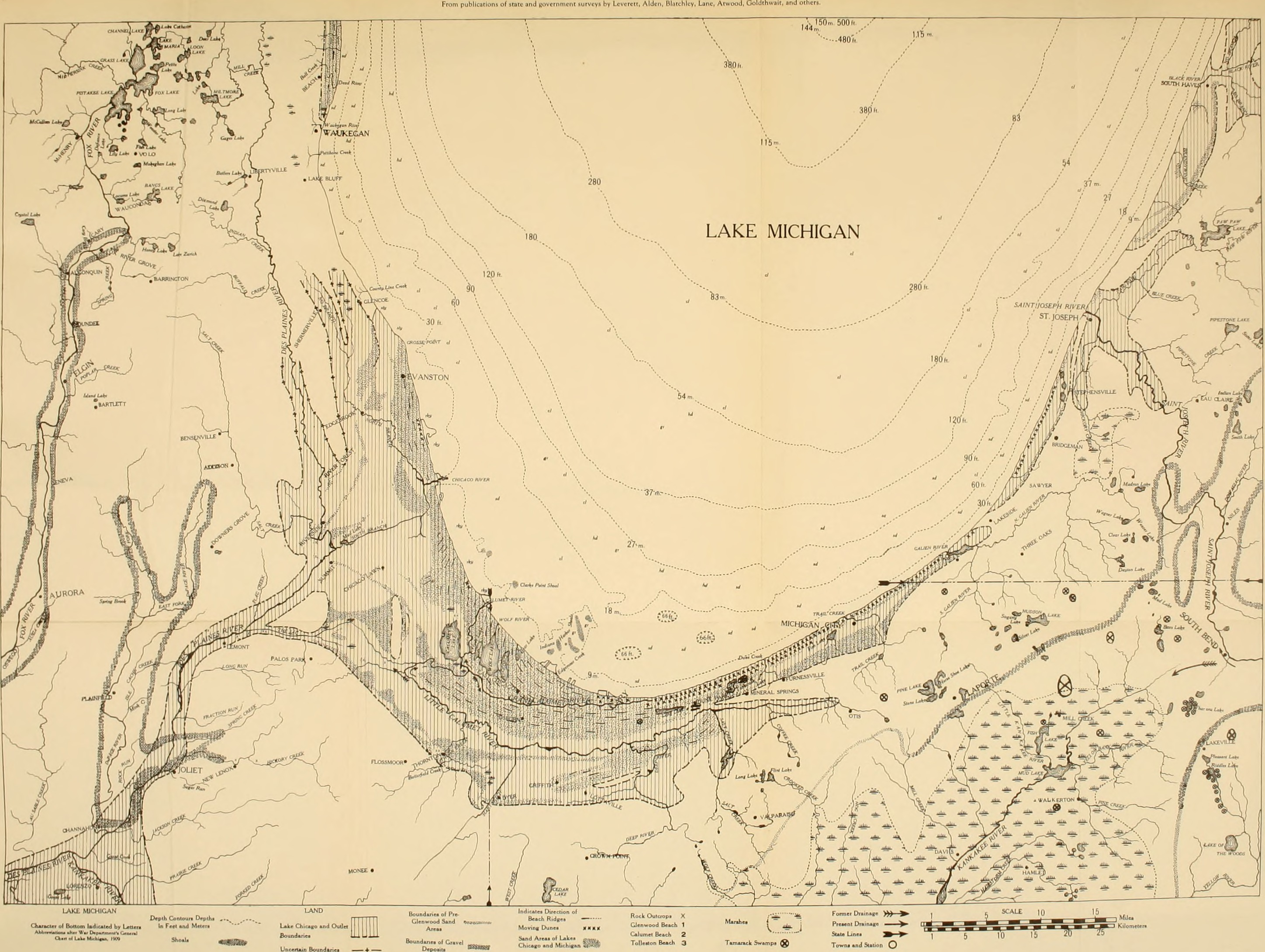 Title: Animal communities in temperate America : as illustrated in the Chicago region; a study in animal ecology Year: 1937 (1930s) Authors: Shelford, Victor E. (Victor Ernest), b. 1877; Geographic Society of Chicago Subjects: Animal ecology; Zoology -- Illinois Chicago Publisher: Chicago, Ill. : Published for the Geographic Society of Chicago by the University of Chicago Press Text Appearing Before Image: GUIDE MAP OF Till" i III' AGO KIGION Text Appearing After Image: '